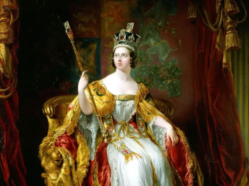 A cropped image of Hayter's 1840 life-sized replica of his 1838 state portrait of Queen Victoria.